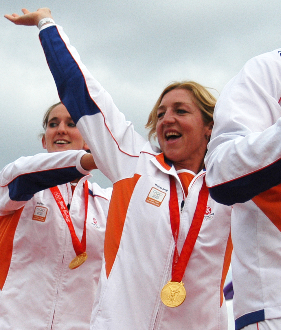 Gillian van den Berg at the Olympic welcome in the Olympic Stadium in Amsterdam, the Netherlands.